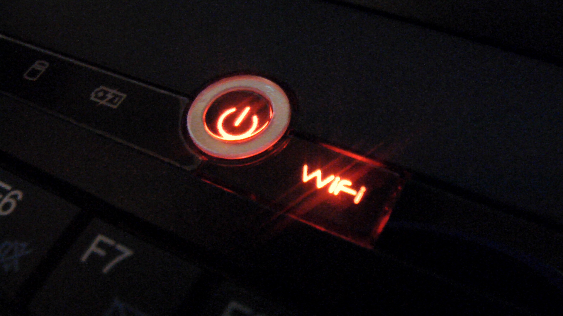 The power off button on the Everex Cloudbook Mini Laptop